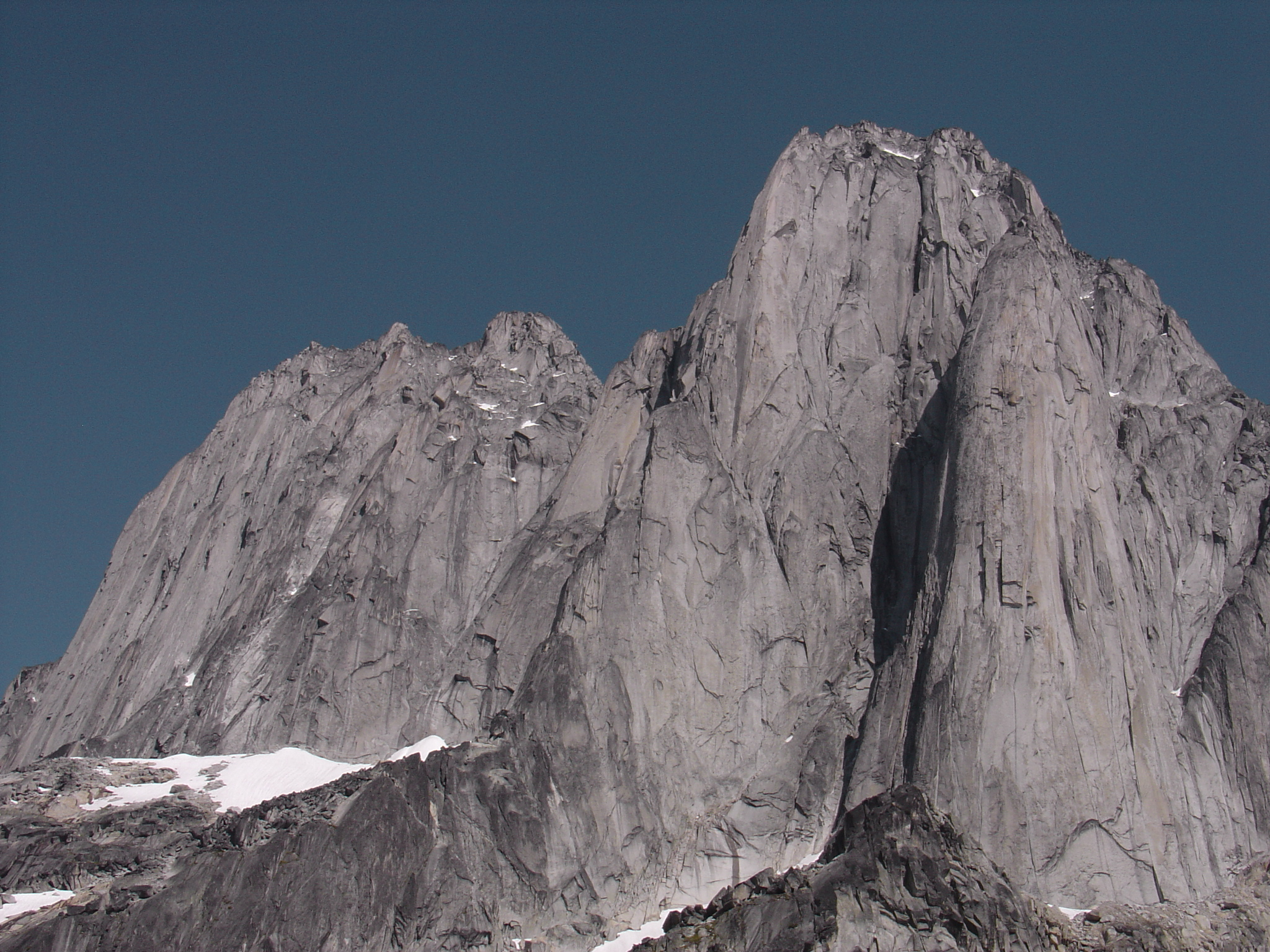 Right under the Howser spire. The edge going up the middle to the peak is the main climbing route.